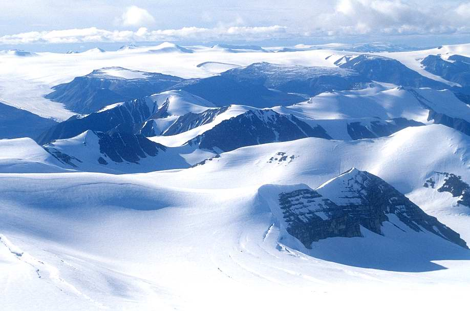 Osborn Range (photographed from Twin Otter), Ellesmere Island, Nunavut, Canada